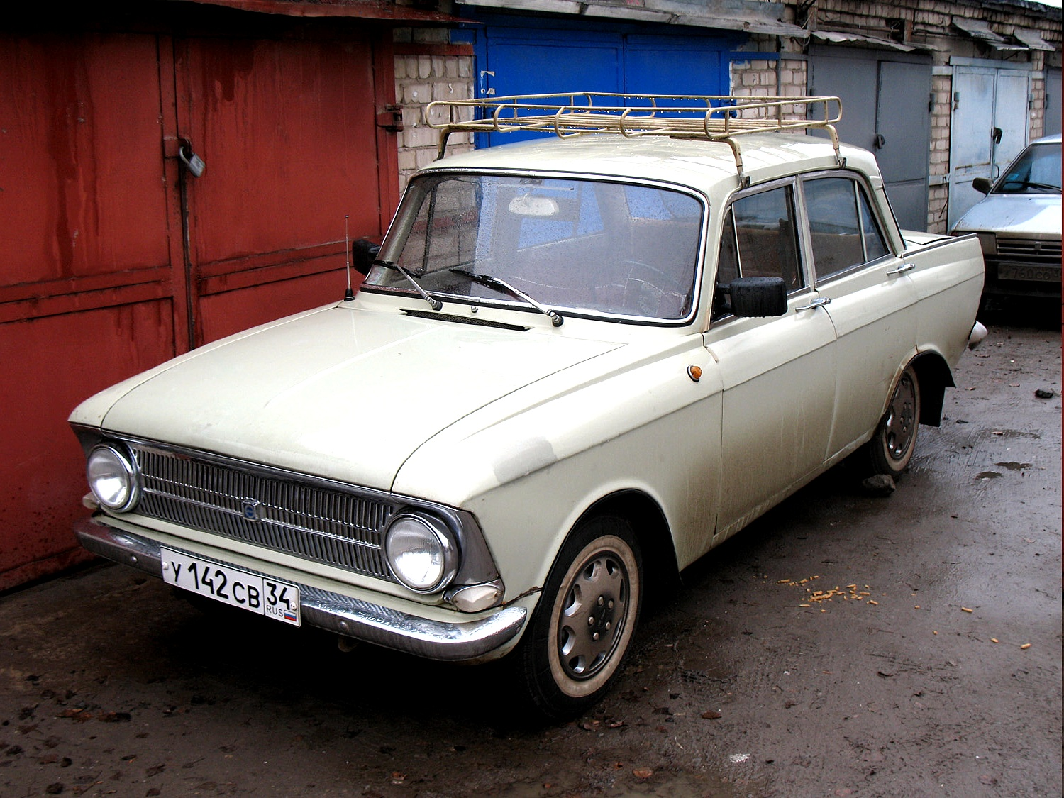 Izh Moskvitch 412, produced in 1974, photographed in 2007